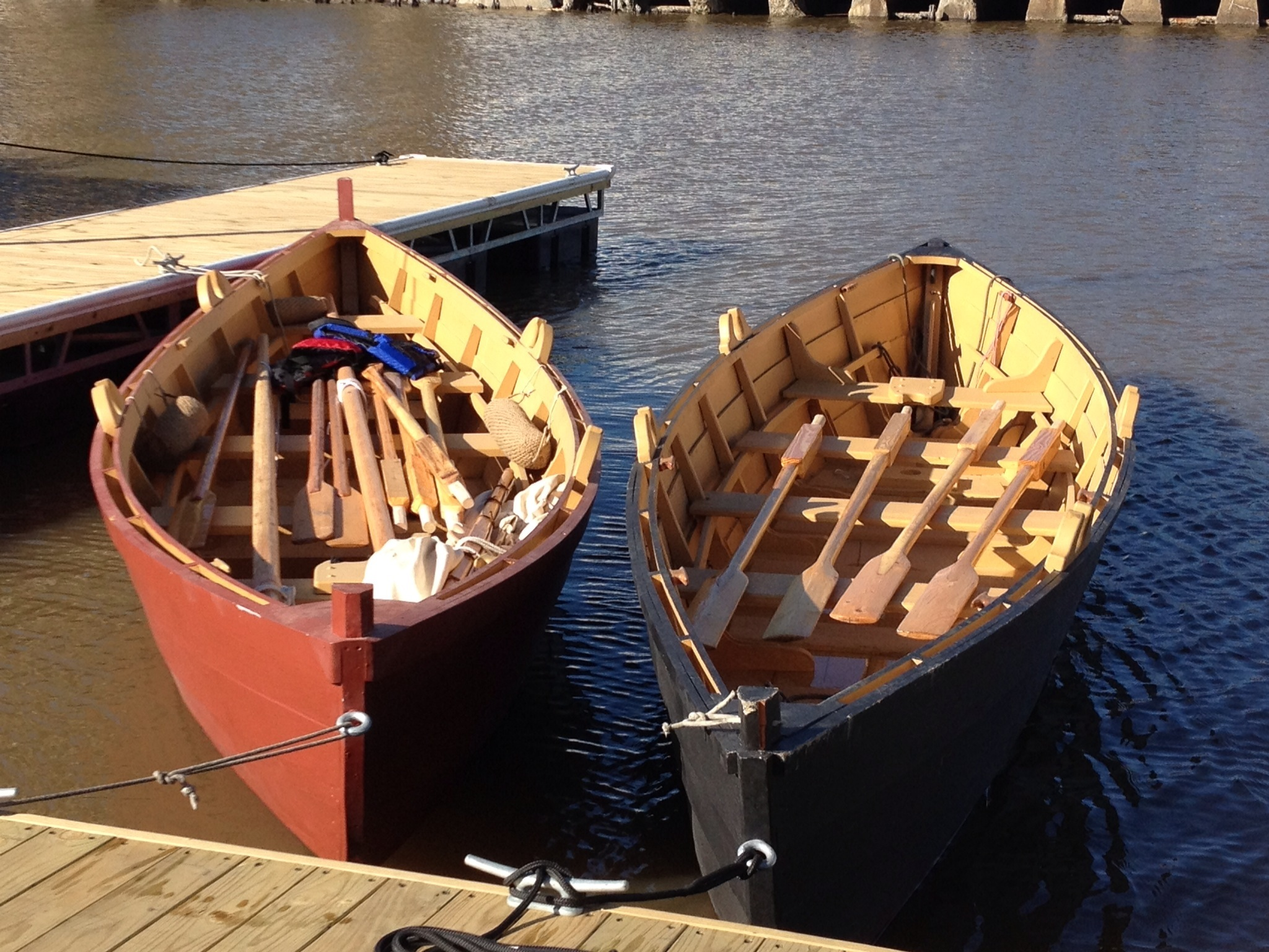 Image of two replica colonial bateaux in the Buffalo Inner Harbor.